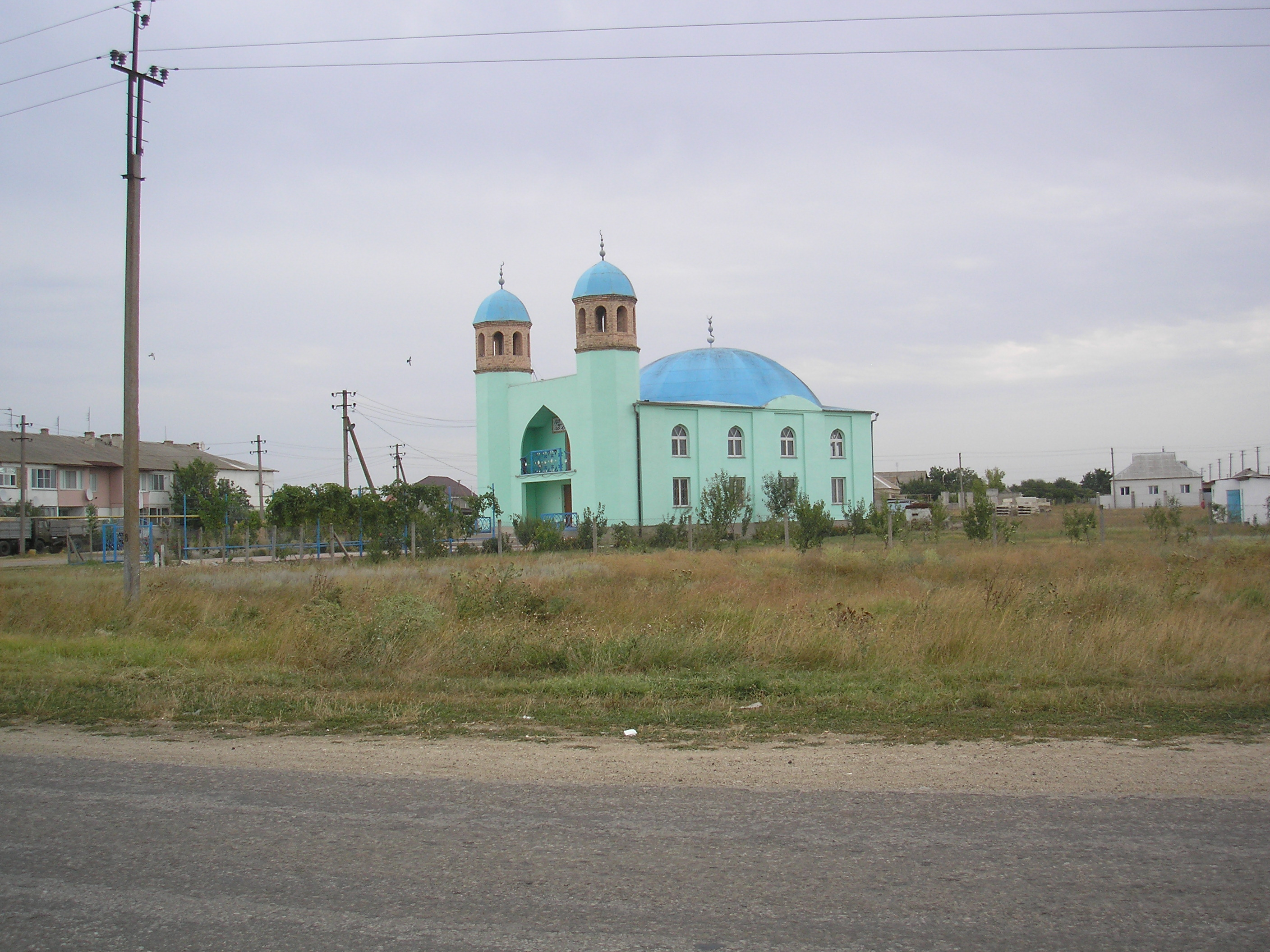 Mosque in Lenino town, Leninskiy Raion, Crimea